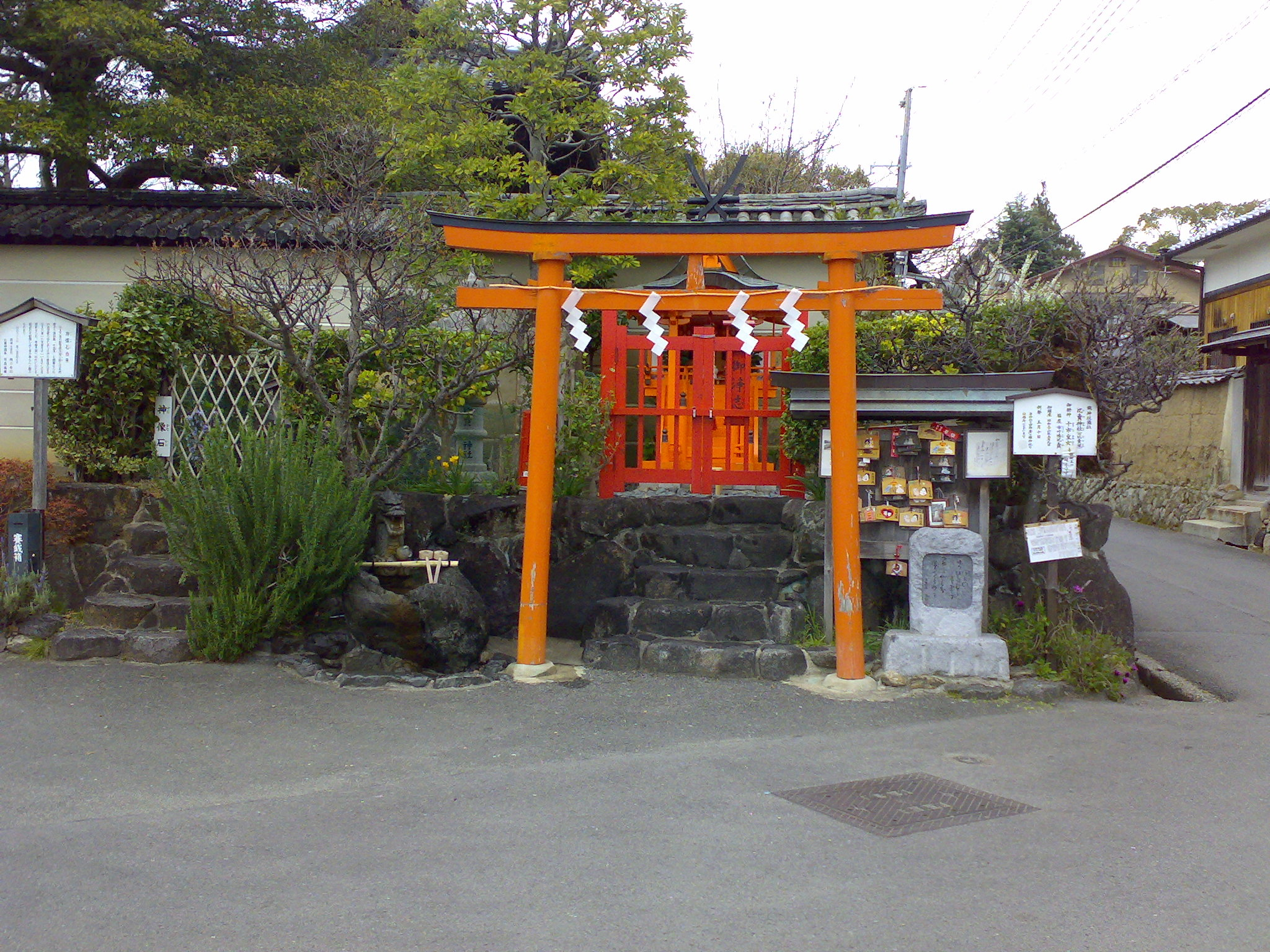 Himegamisha. An expected tomb of Princess Tochi.